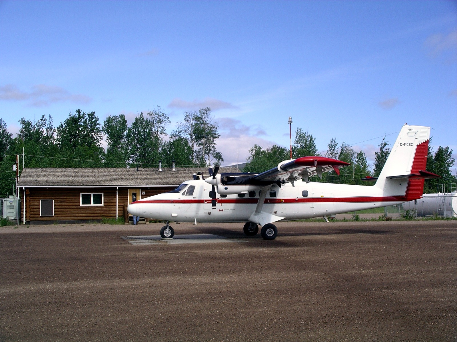 Fort Liard Terminal building